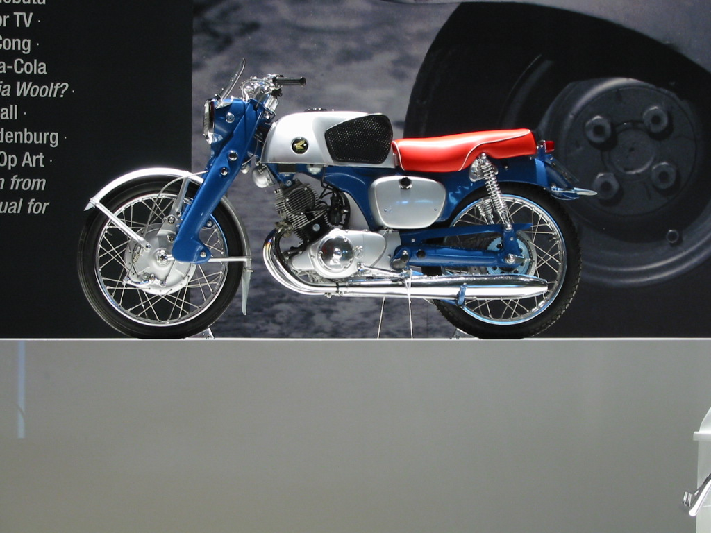 Honda CB92 at The Art of the Motorcycle, Las Vegas